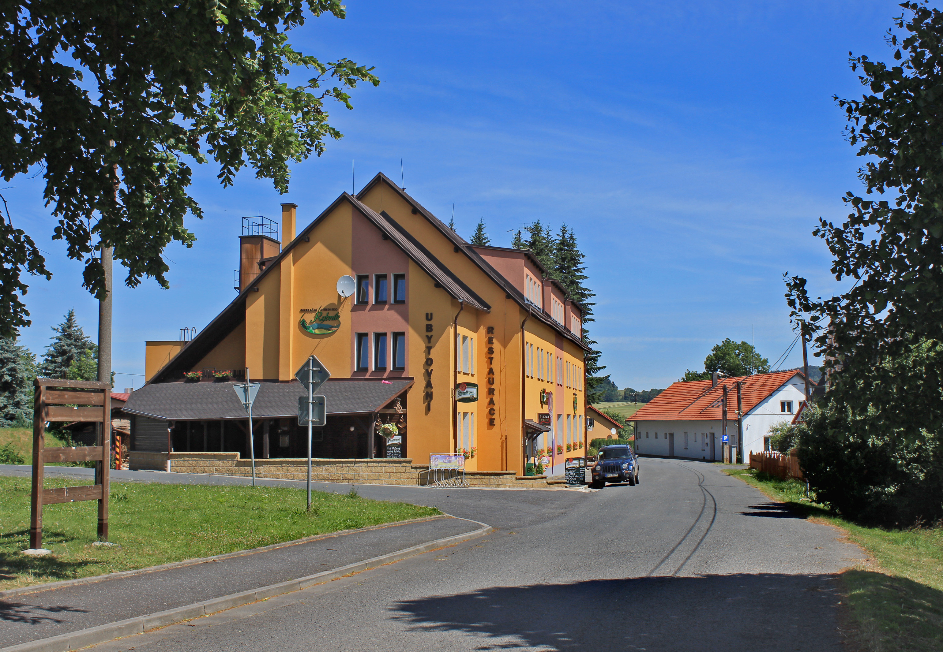 Restaurant in Rybník, Czech Republic.